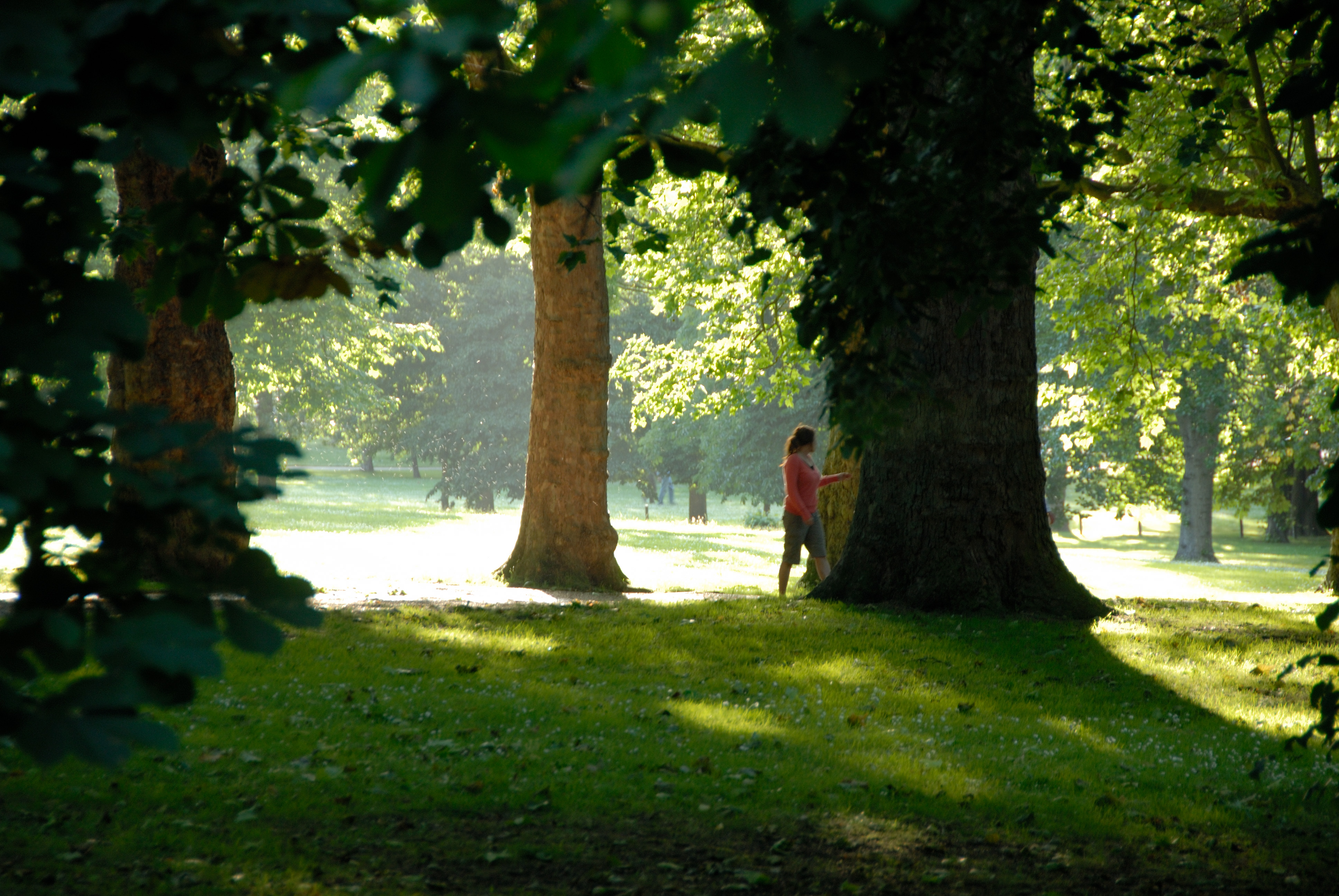 Walking in Finsbury Park